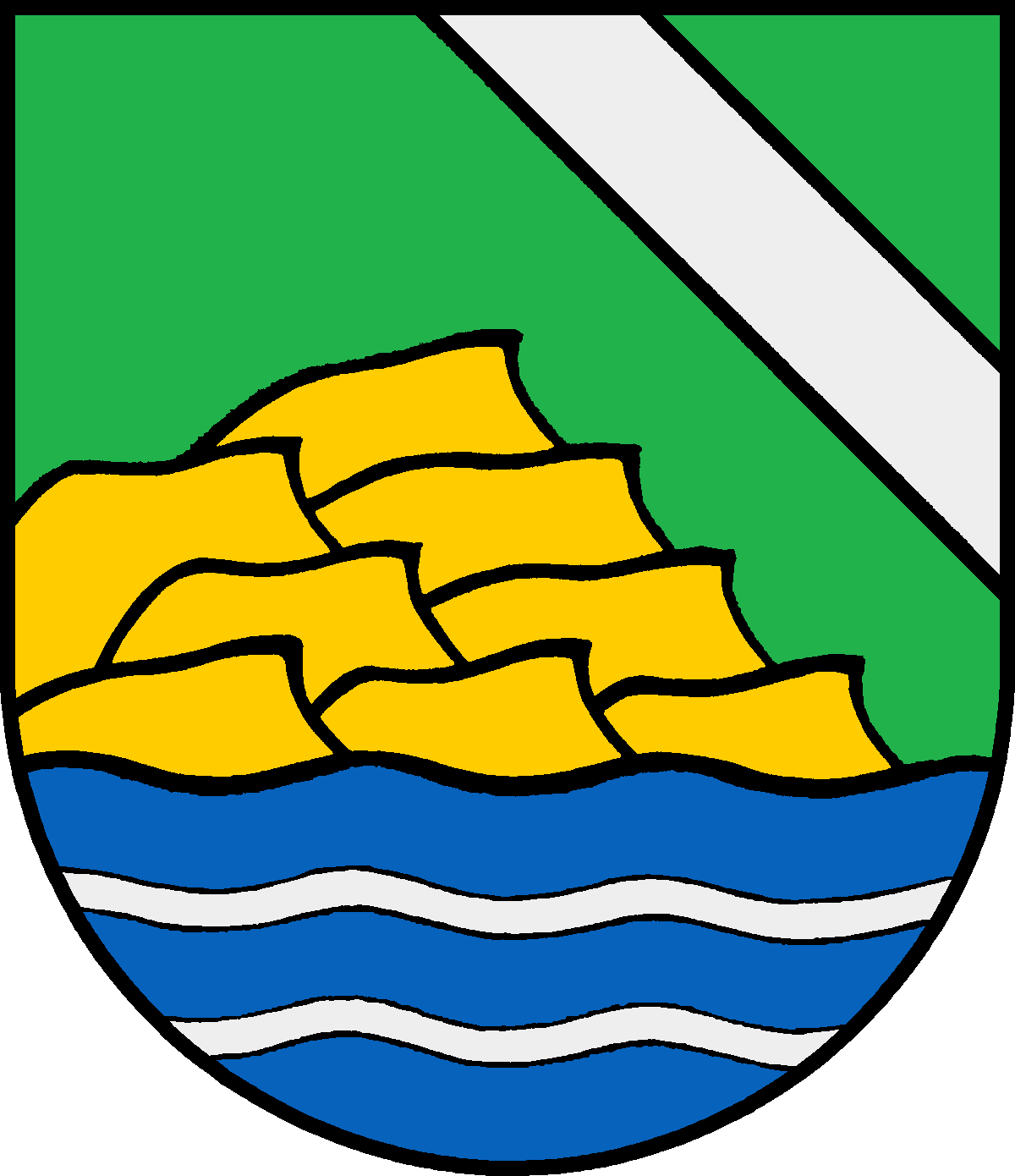 Coat of arms of the municipality Süderlügum in Schleswig-Holstein, Germany.